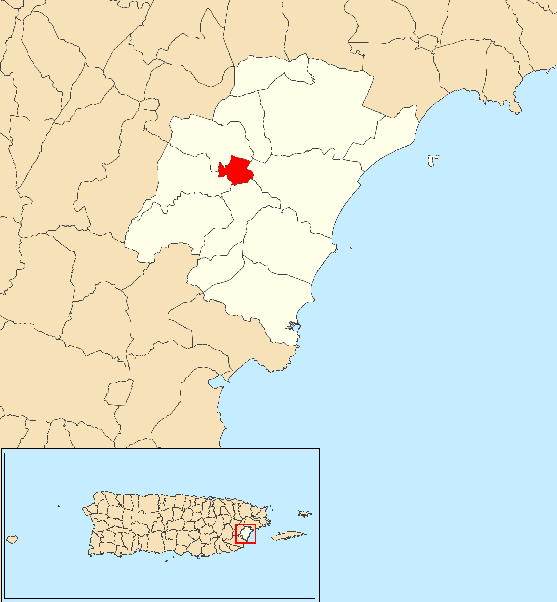 Humacao barrio-pueblo, Humacao, Puerto Rico locator map